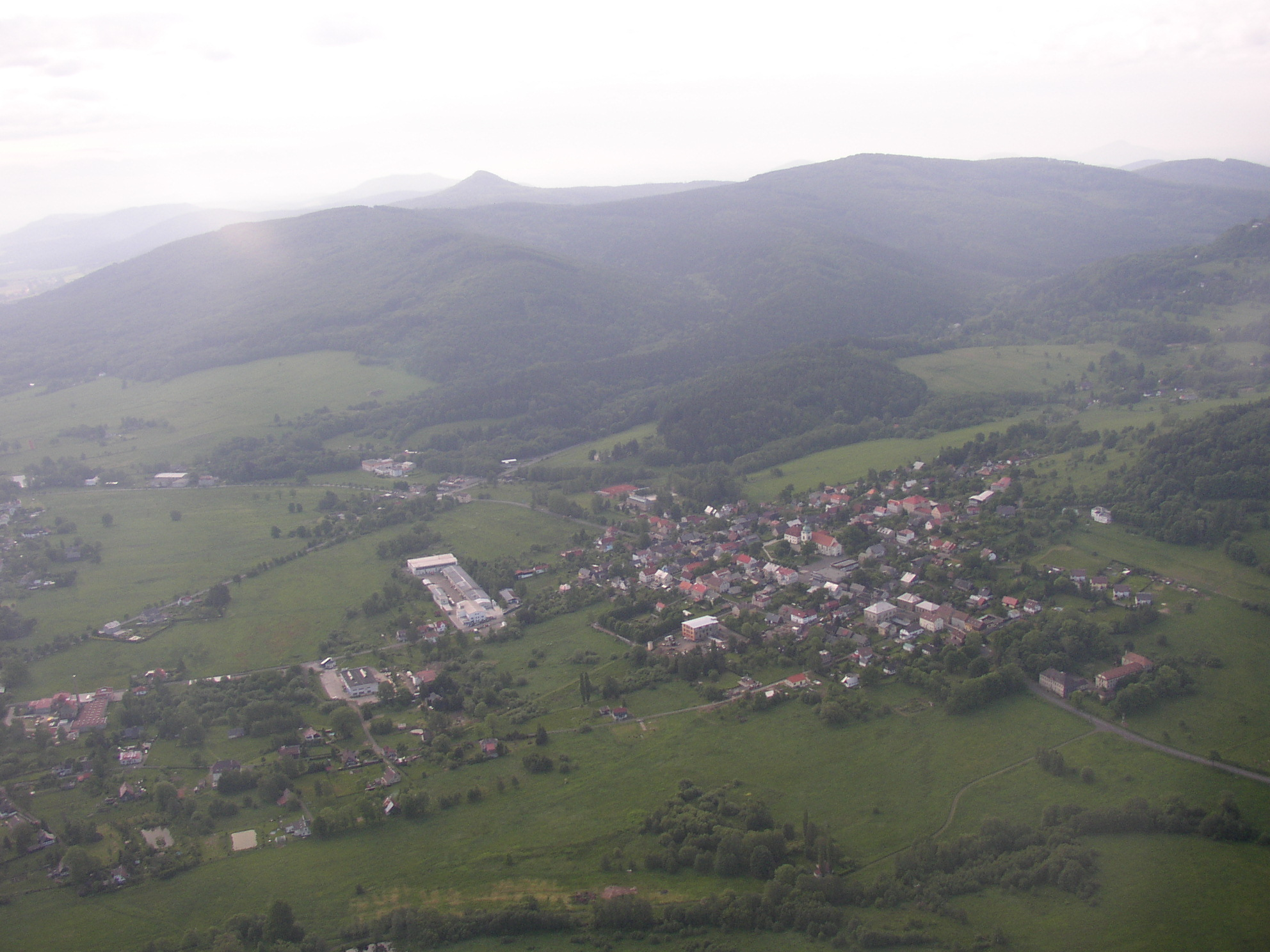 Lauzitzer Gebirge, Czech Republic